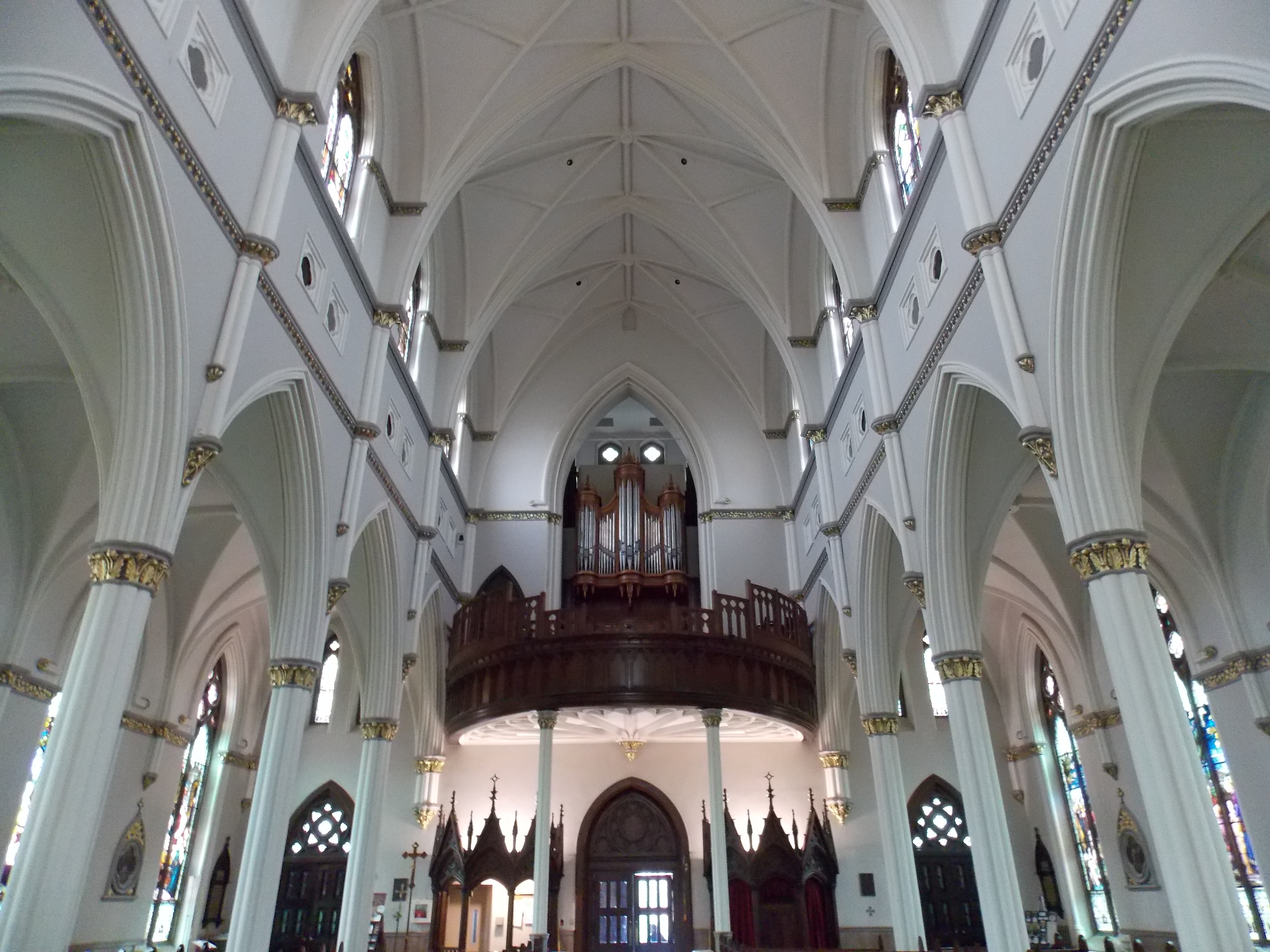 The gallery and pipe organ in the Cathedral of Saint John the Baptist in Charleston, South Carolina.